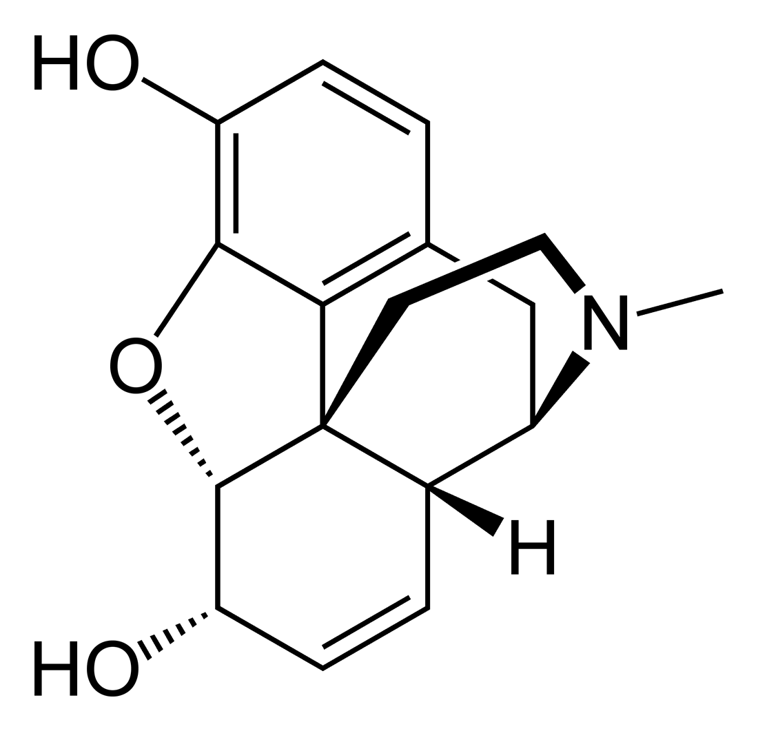 Skeletal formula of morphine